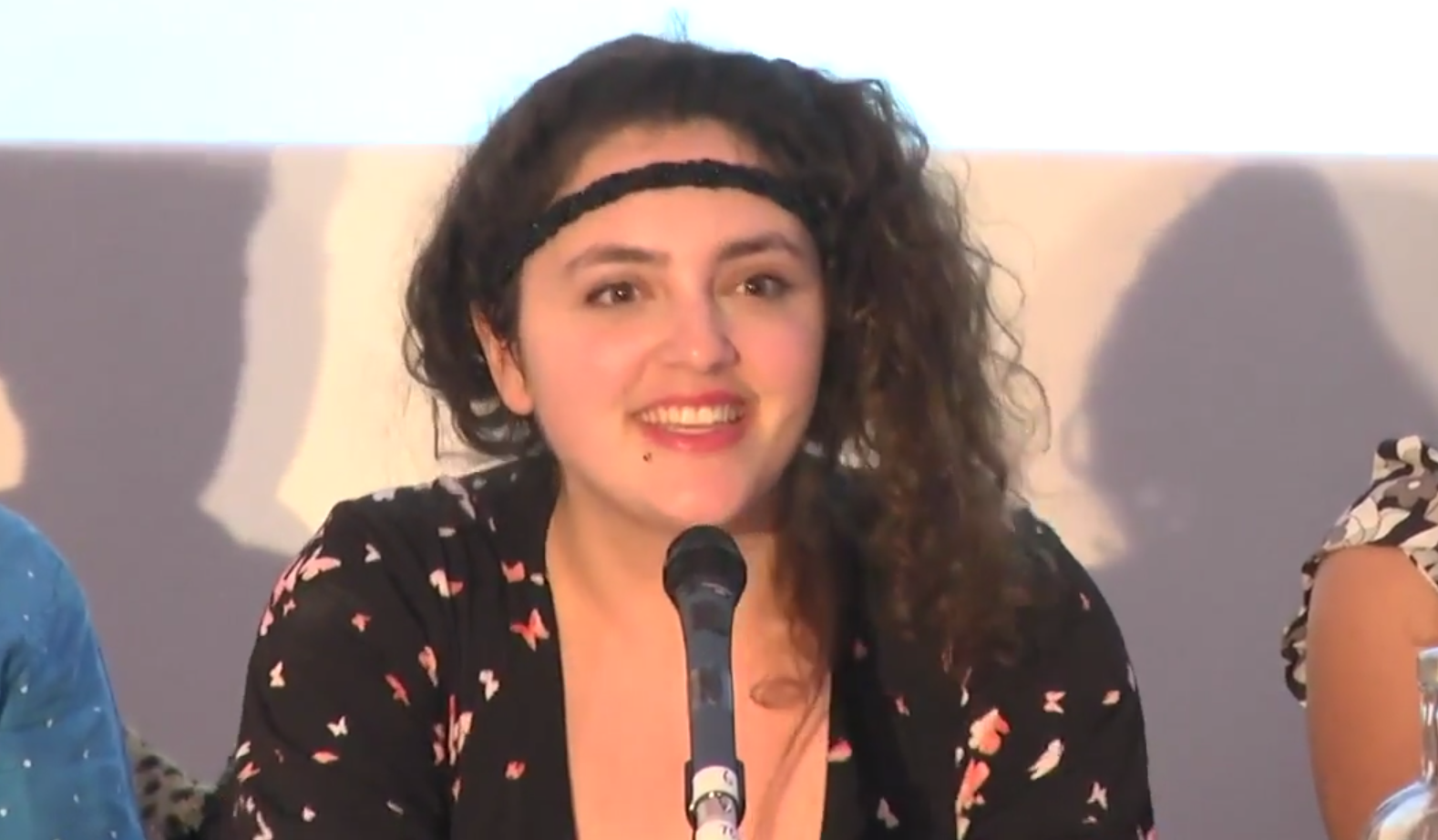 Shelley Segal, Australian-American atheist singer/songwriter, on the Art as Resistance Discussion Panel at the International Conference on Free Expression and Conscience, London, 22-24 July 2017 (#IWant2BFree).